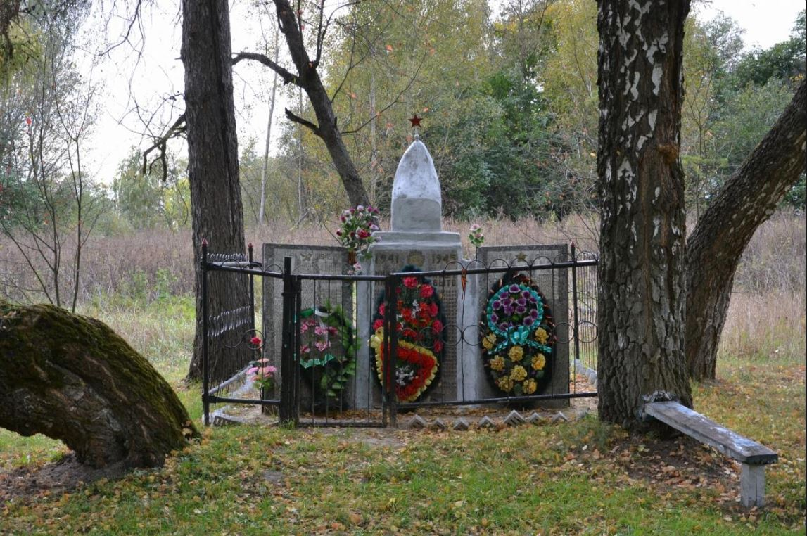 Братская могила в посёлке Покровский Спиртзавод